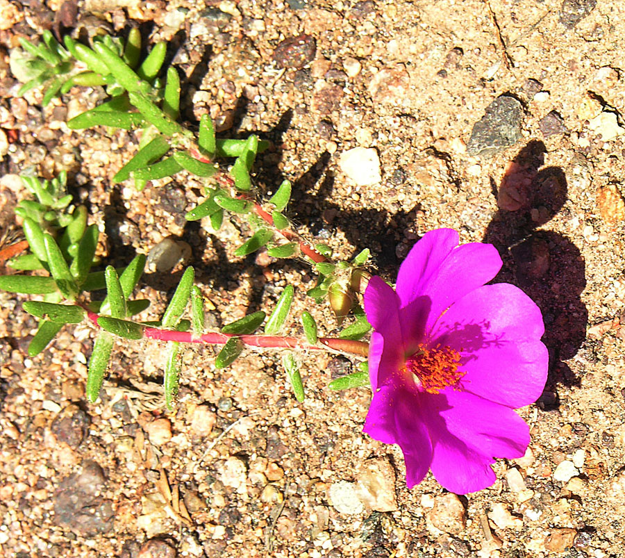 A Flor de Seda with succulent leaves in northwestern Argentina. In context at